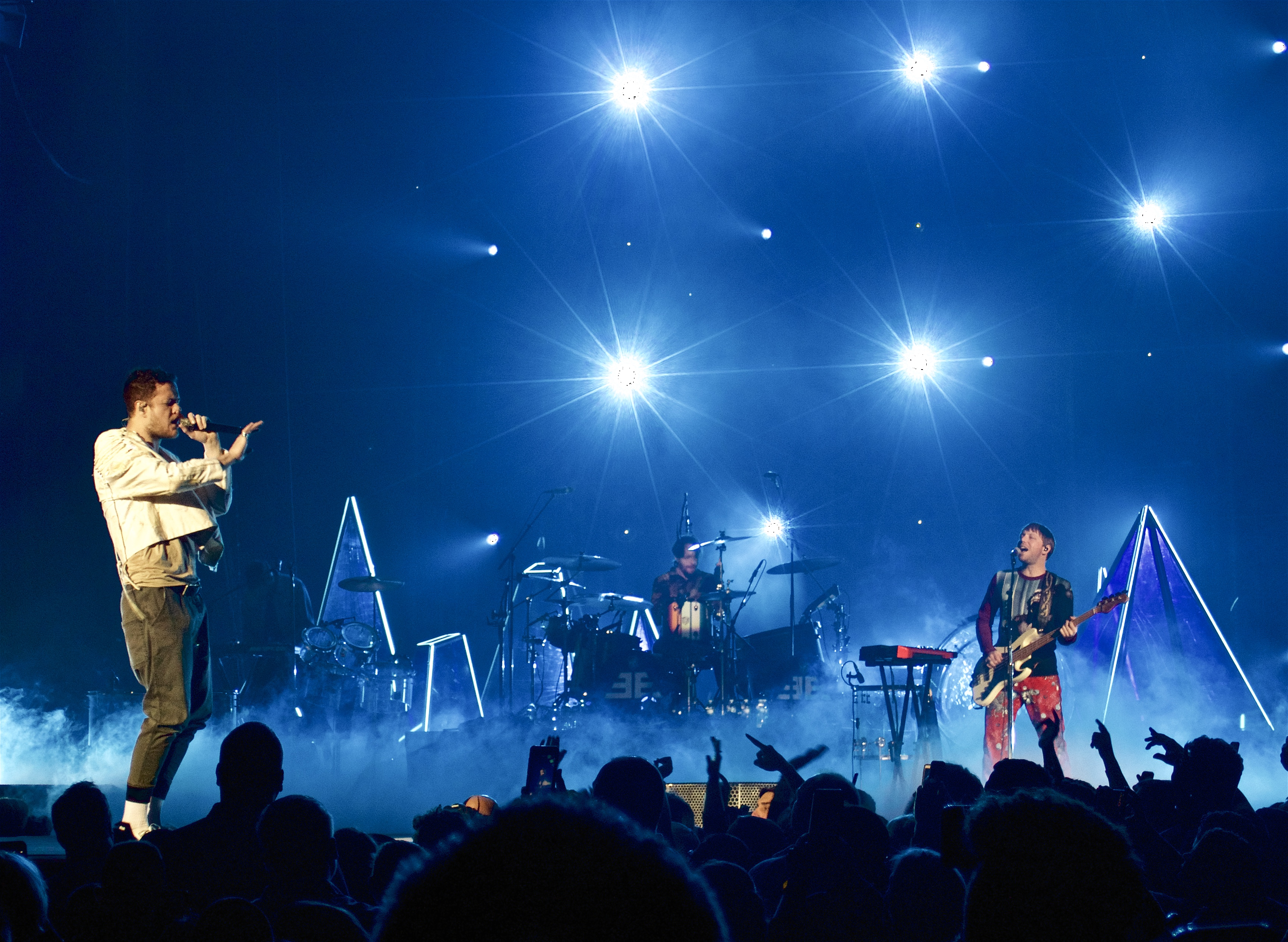 Imagine Dragons live in concert at Mohegan Sun in Uncasville, Connecticut, November 2017.